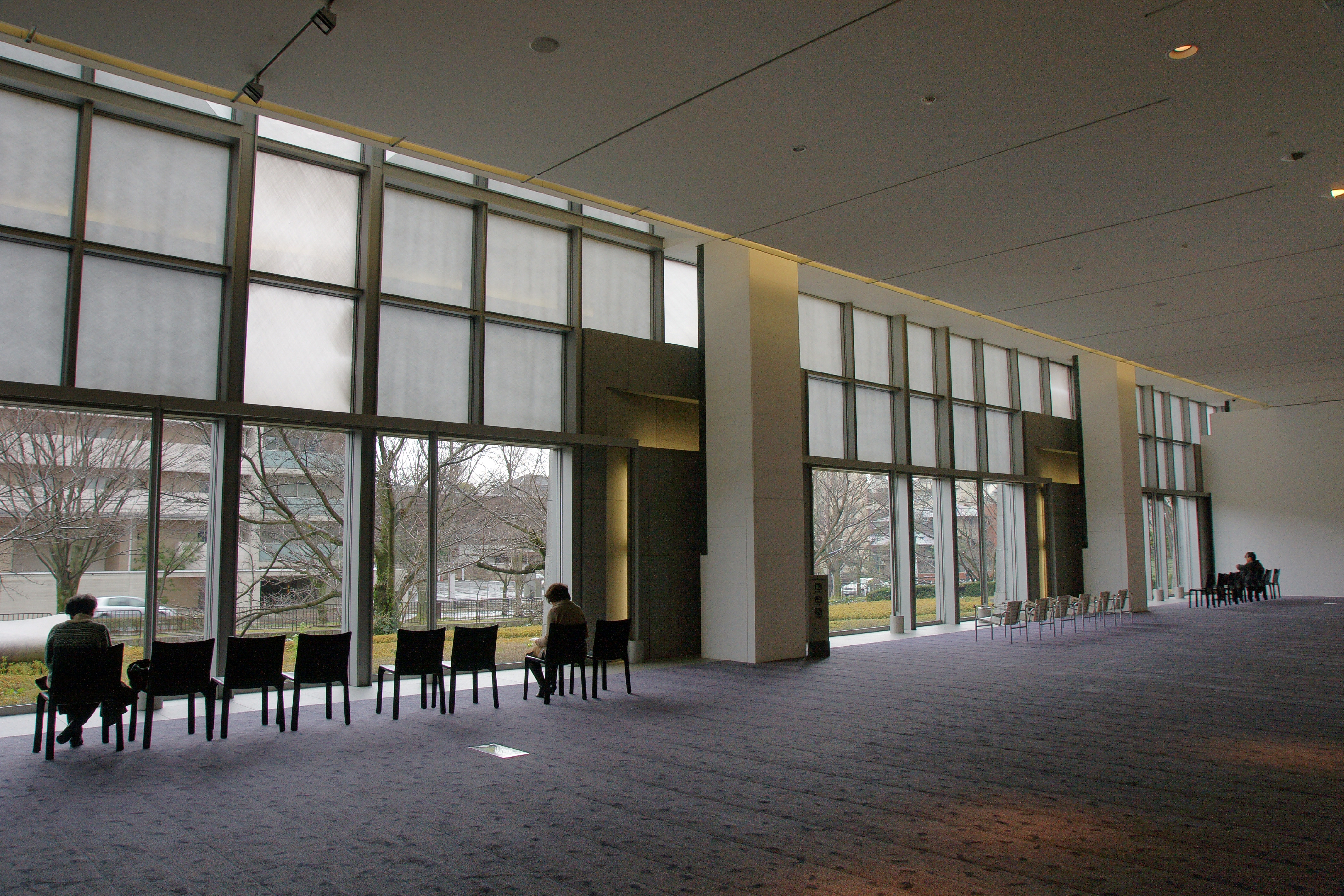 National Museum of Modern Art, Kyoto in Sakyō-ku, Kyoto, Kyoto Prefecture, Japan